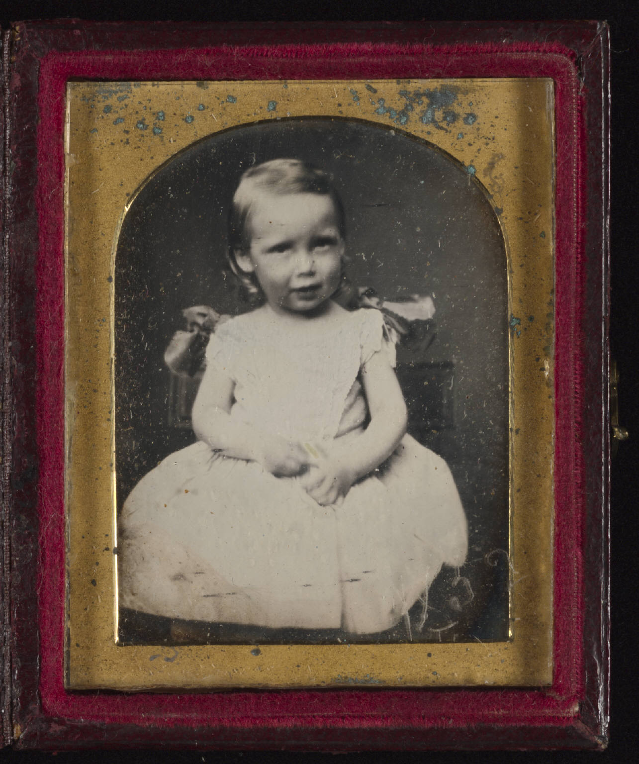 Daguerreotype portrait of Scottish novelist and poet Robert Louis Stevenson as a child. Unknown photographer. Courtesy of the Beinecke Rare Book & Manuscript Library, Yale University.[1]